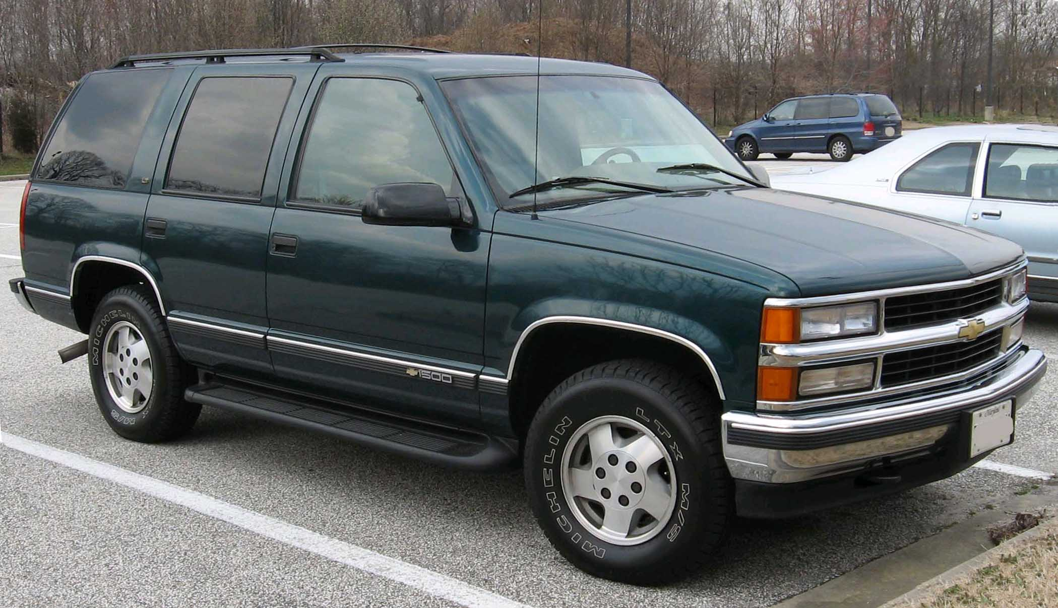 1995-1996 Chevrolet Tahoe photographed in Fort Washington, Maryland, USA.